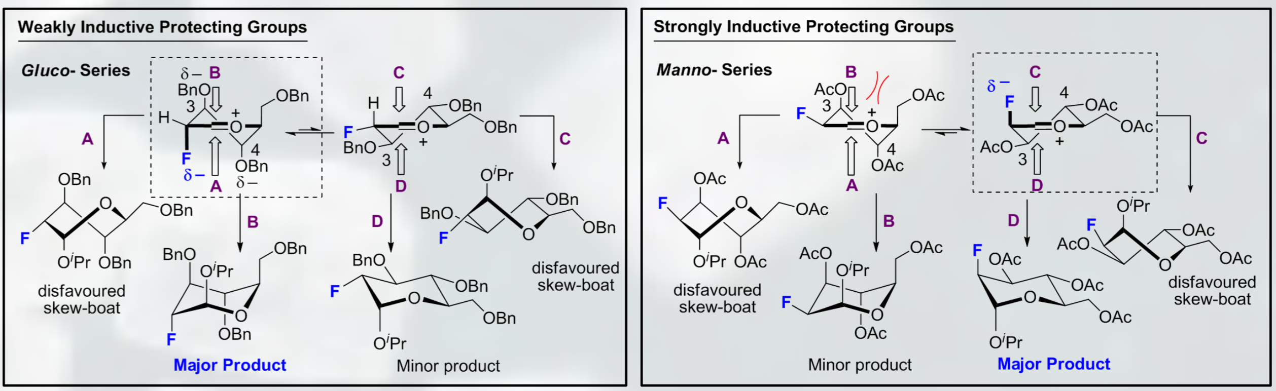 Control of Oxonium ion - Felkin-Ahn stereoselectivity2